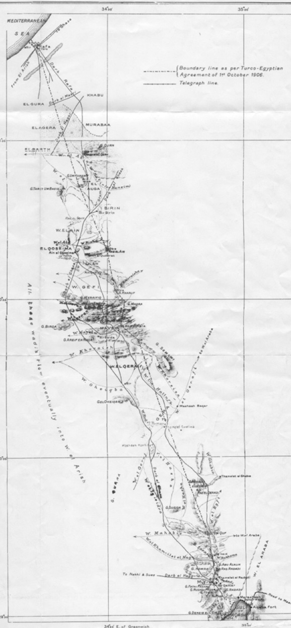 Egypt Ottoman border 1906, as depicted in 1907